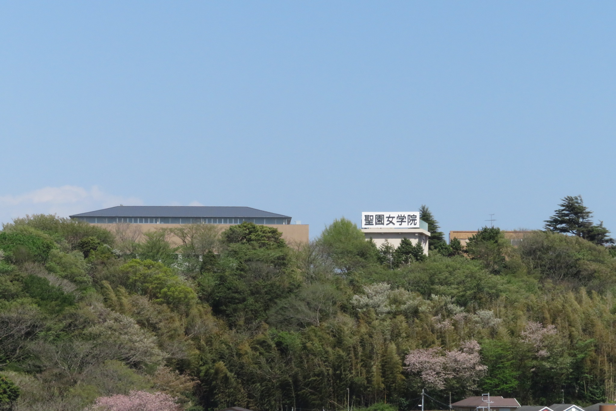 Misono Jogakuin in Fujisawa City, Kanagawa Prefecture, Japan